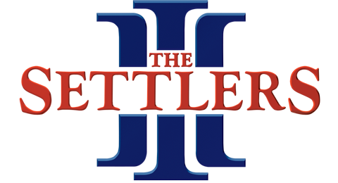 Logo for the 1998 video game The Settlers III